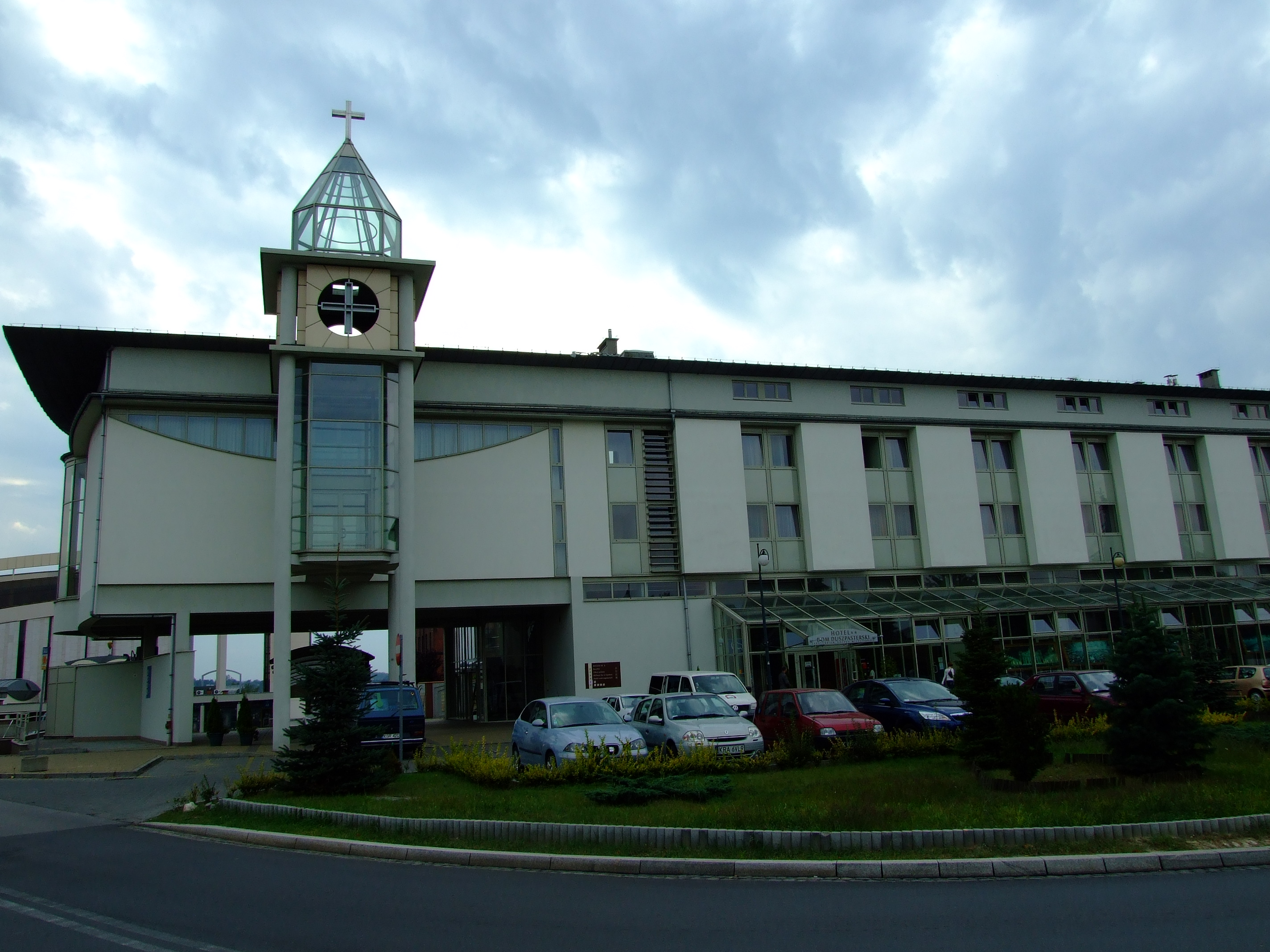 The Sanctuary of the Divine Mercy in Kraków-Łagiewniki (Poland)